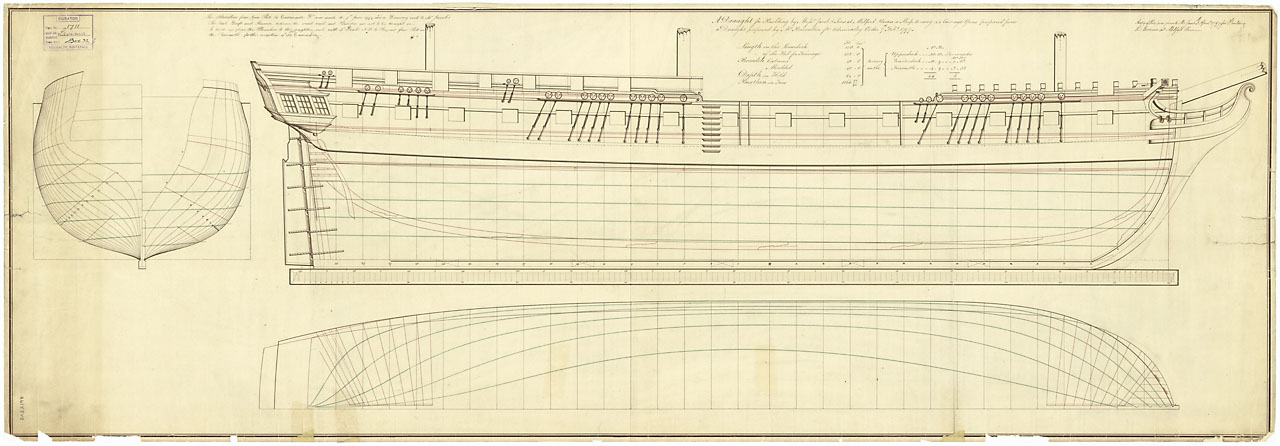 Lavinia (1806) Scale: 1:48. Plan showing the body plan, sheer lines with scroll figurehead, longitudinal half - breadth for Lavinia (1806). a 44 - gun, Fifth Rate frigate from a draught proposed by Mr. Barrallier. LAVINIA 1806